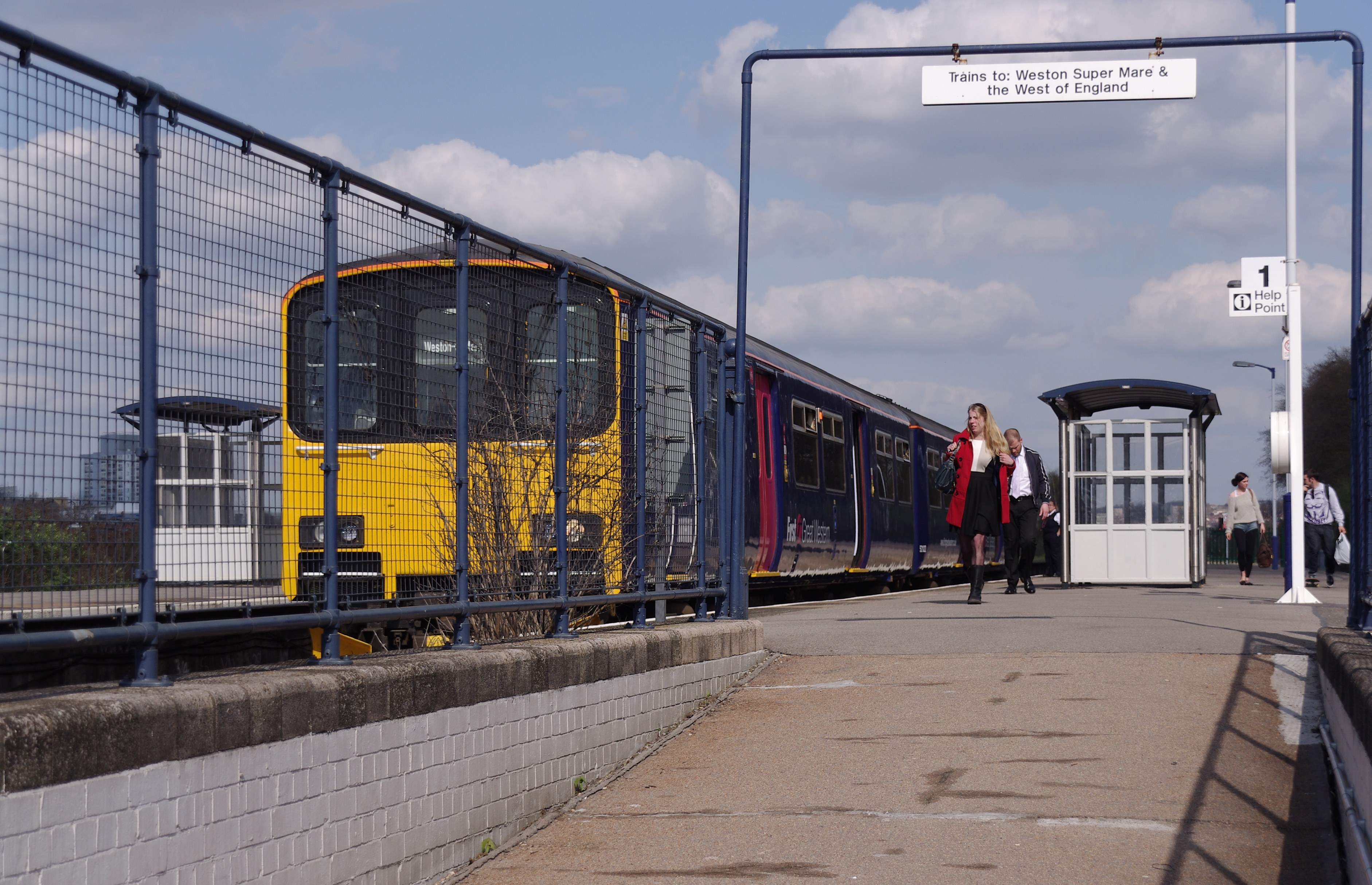 First Great Western Class 150/1 "Sprinter" DMU 150122 stands at Bedminster with a service to Weston-super-Mare.